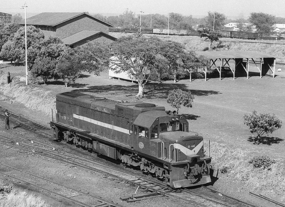 SAR Class 33-400 no. 33-440, on lease to Zambia Railways, on Livingstone Shed in Zambia